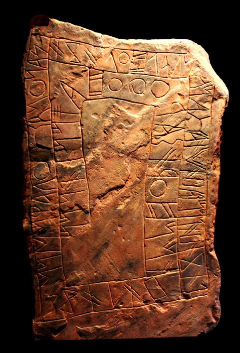 Museum of Writing - Bronze Age - Almôdovar - Portugal